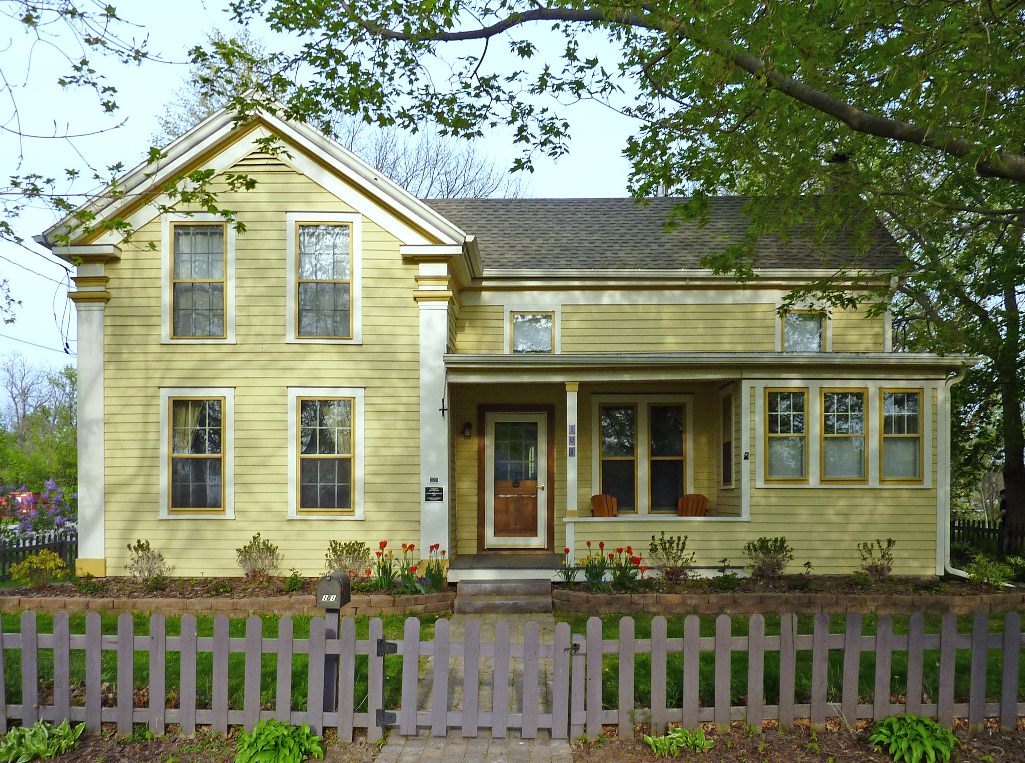 The Lyman Brown House at 101 S. Fifth Street in Stoughton, Wisconsin, also known as the Brown-Sewell House, was built in 1859 and added to the National Register of Historic Places in 2003.